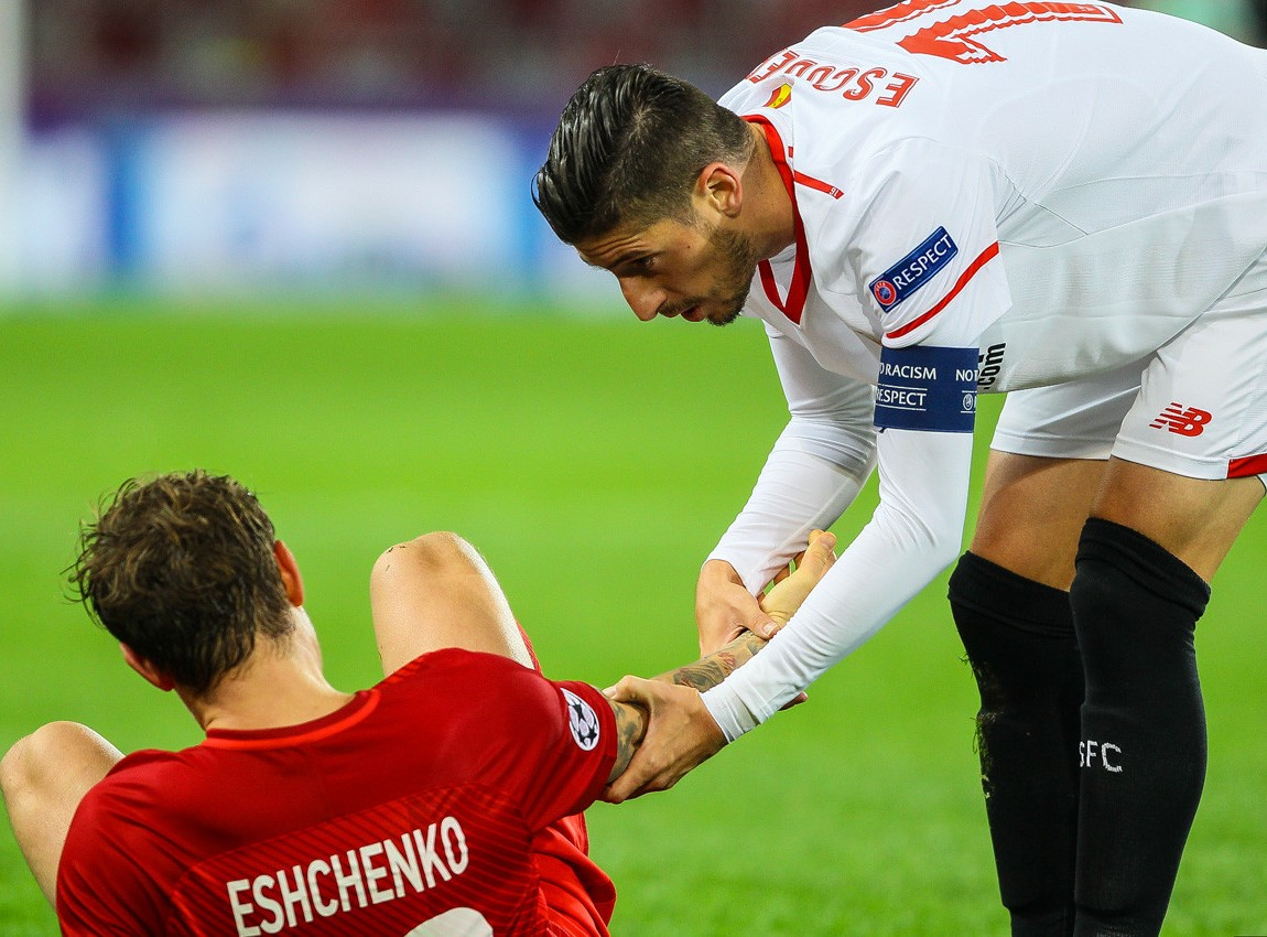 Sergio Escudero Palomo